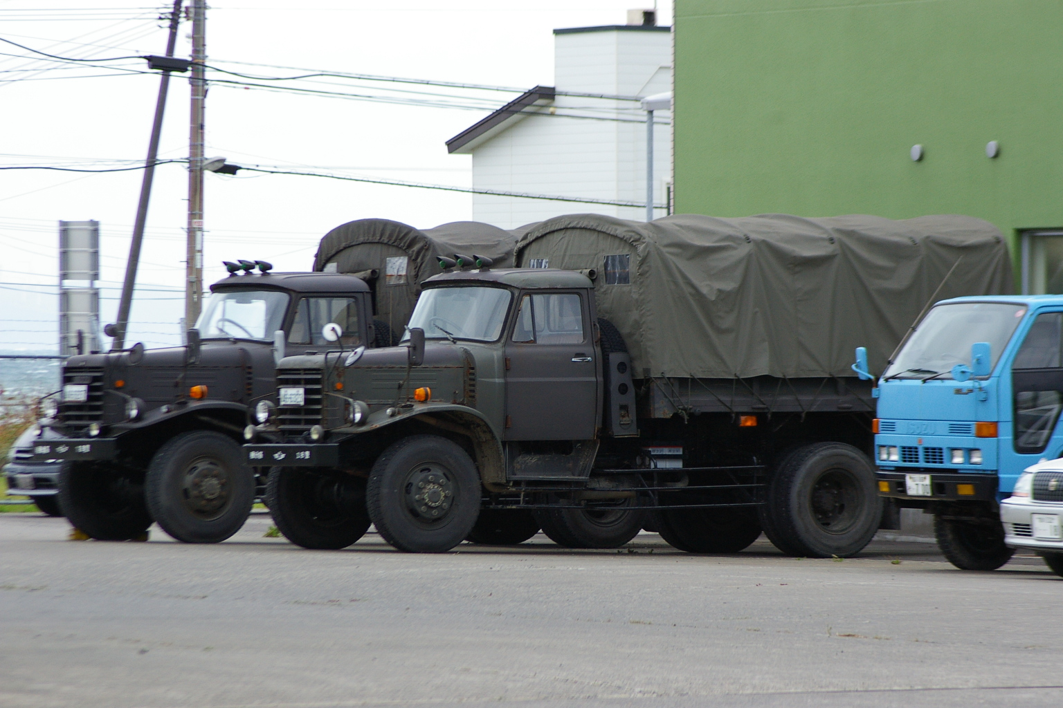 JASDF 2.5t truck.